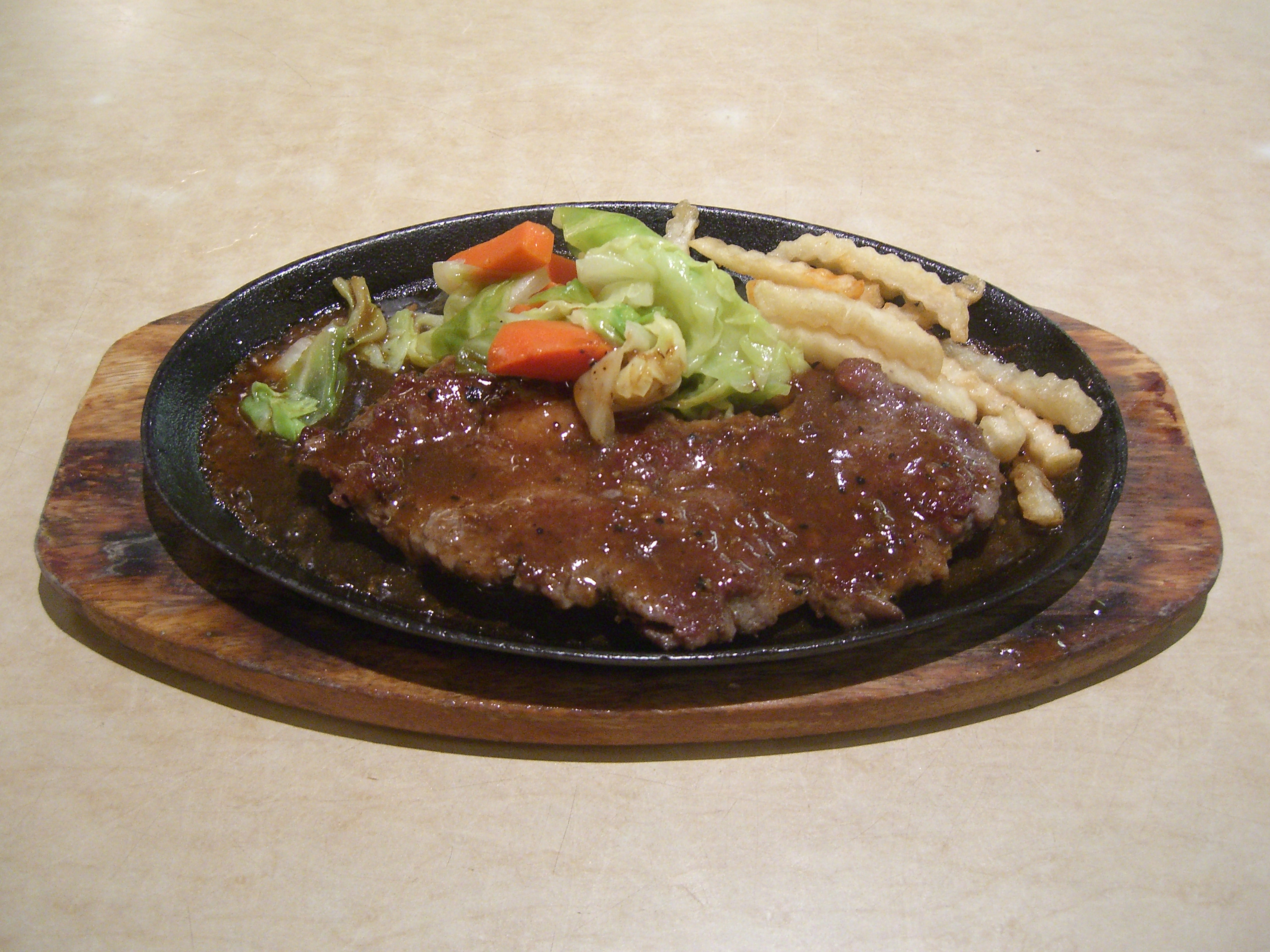 A Hong Kong style hot metal plate meal with a beef steak served